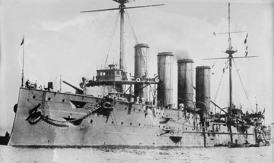 Drake class armoured cruiser HMS Leviathan